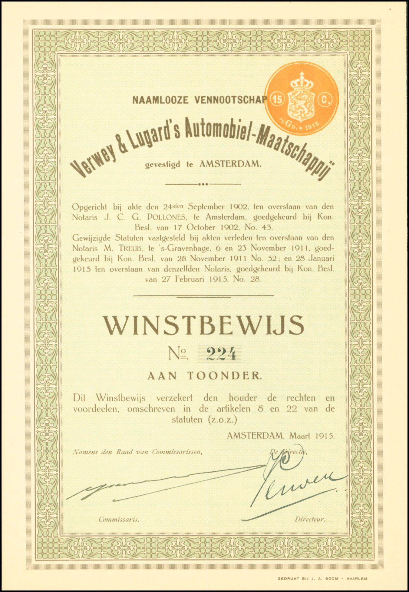 Share of the Verwey & Lugard's Automobiel-Maatschappij, issued in March 1915